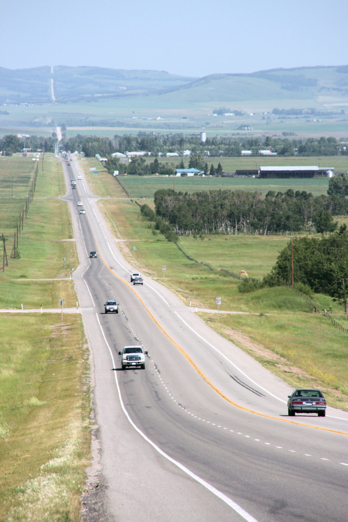 Alberta Highway 22 - direction Black Diamond. Canada.